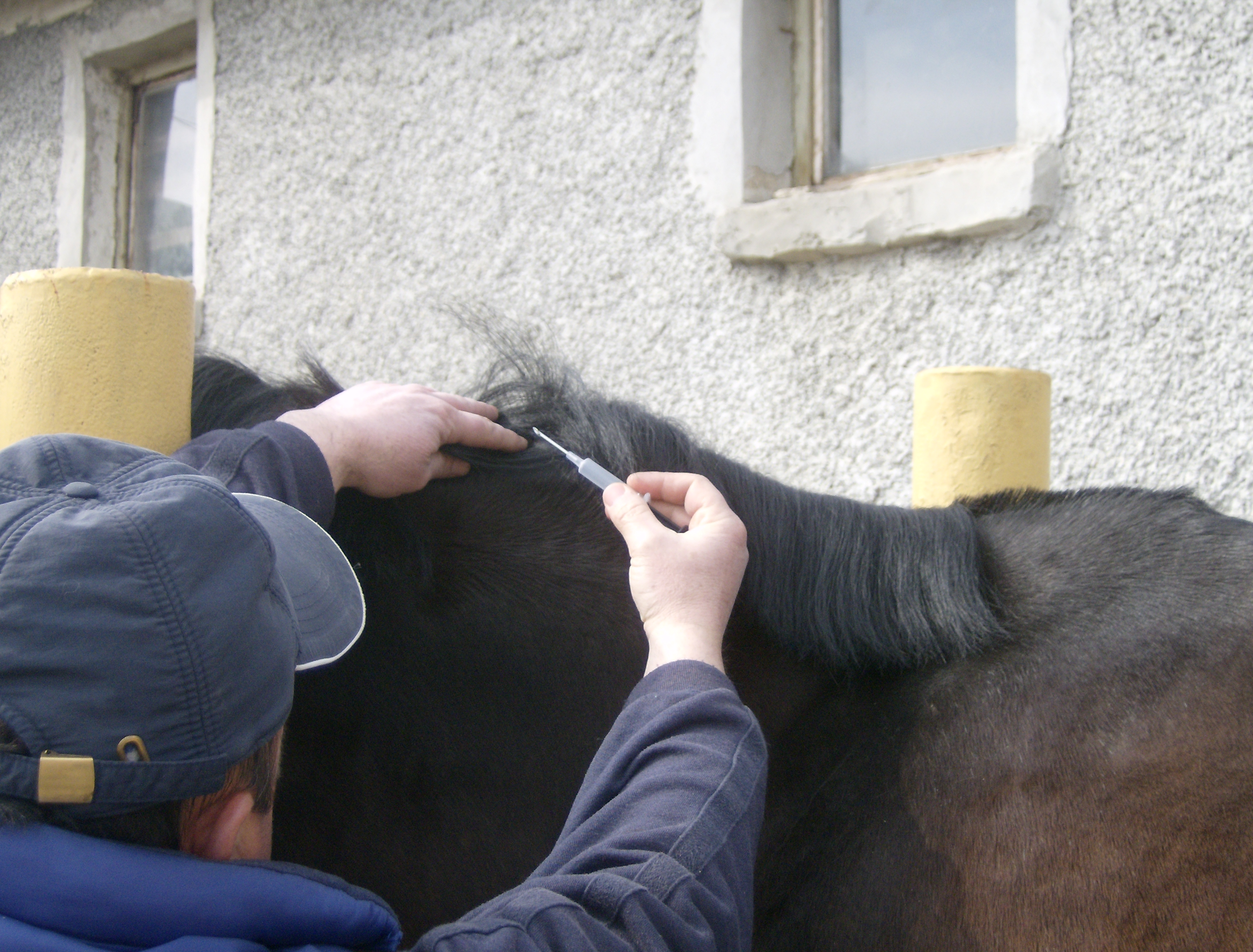 Horse microchiping